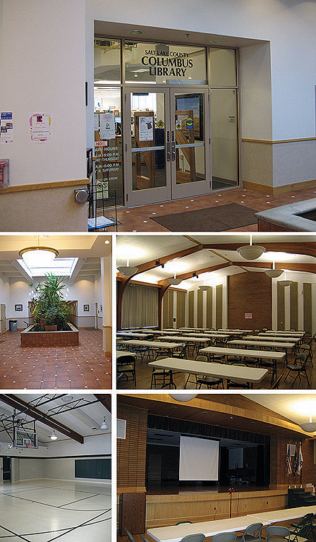 Interior shots of the Columbus School Community Center